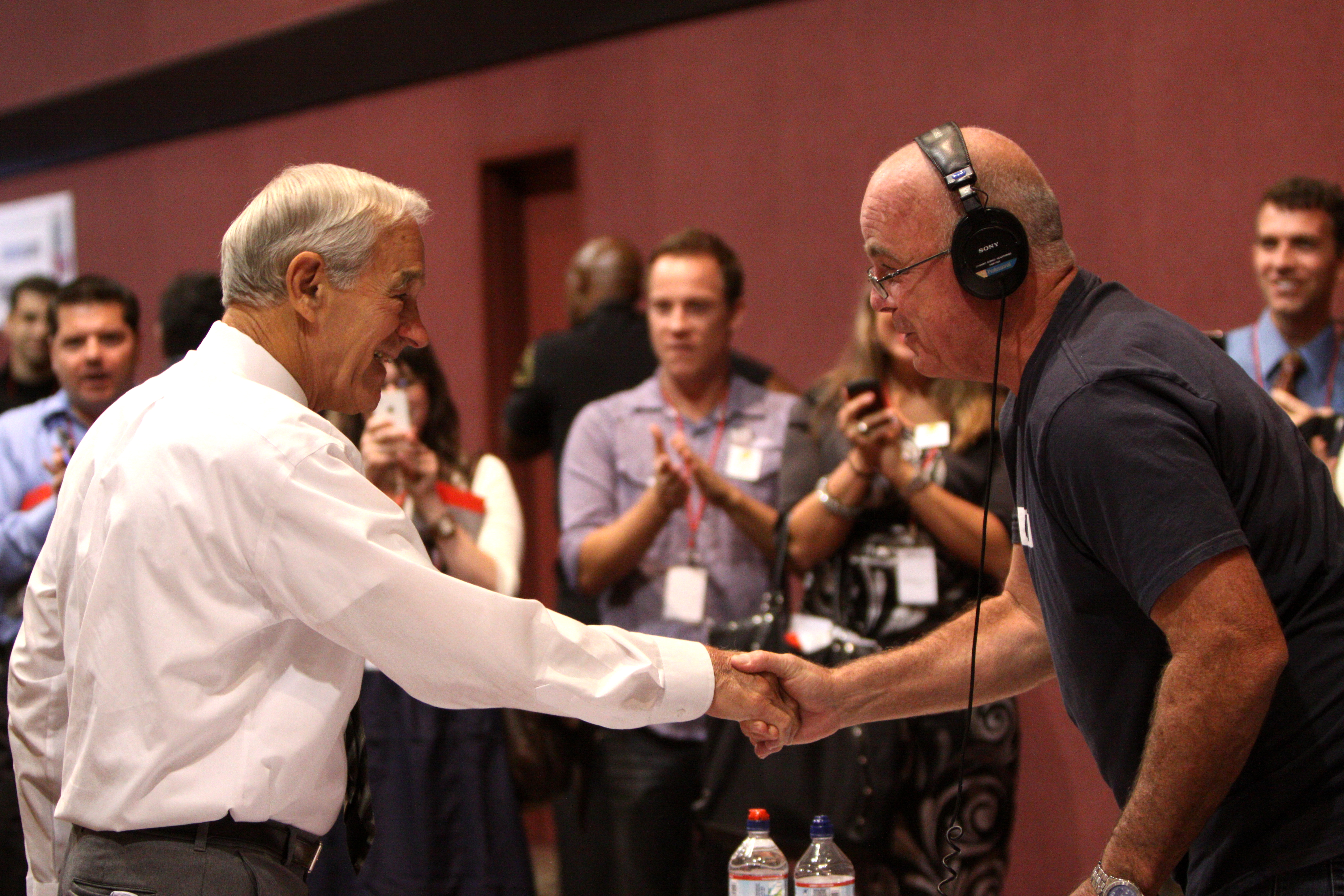 Ron Paul and Jerry Doyle speaking at an event in Reno, Nevada.